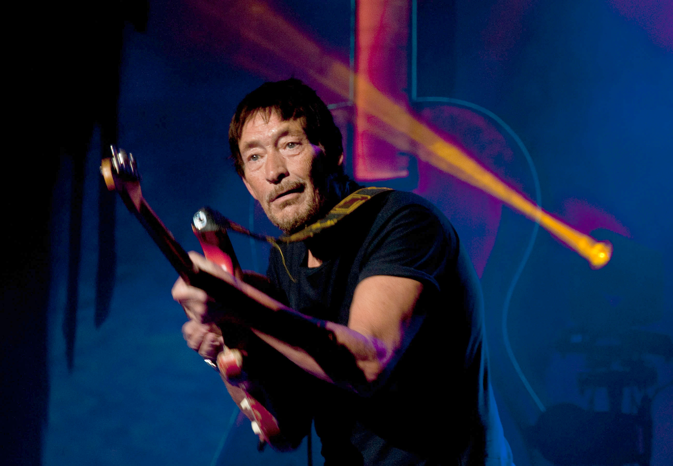 Chris Rea, Concert at Sala Kongresowa, Warsaw, Poland on February 5, 2012 during Santo Spirito Tour